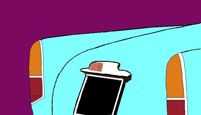 Taillight detail of Lancia Appia Pininfarina Coupé Series III.